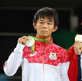 2016 Summer Olympics, Men's Freestile Wrestling 57 kg. Podium.